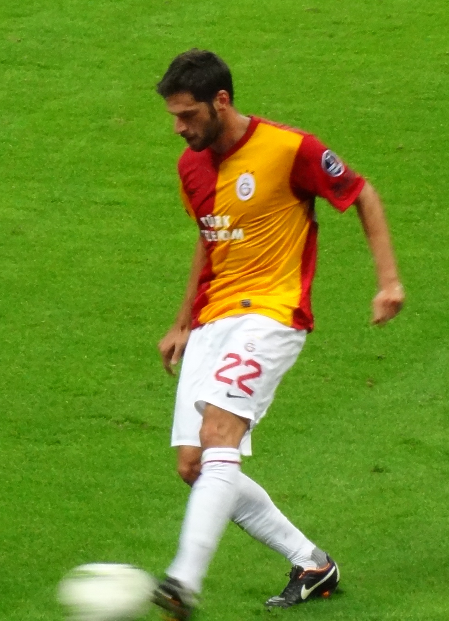 hakan balta against samsunspor